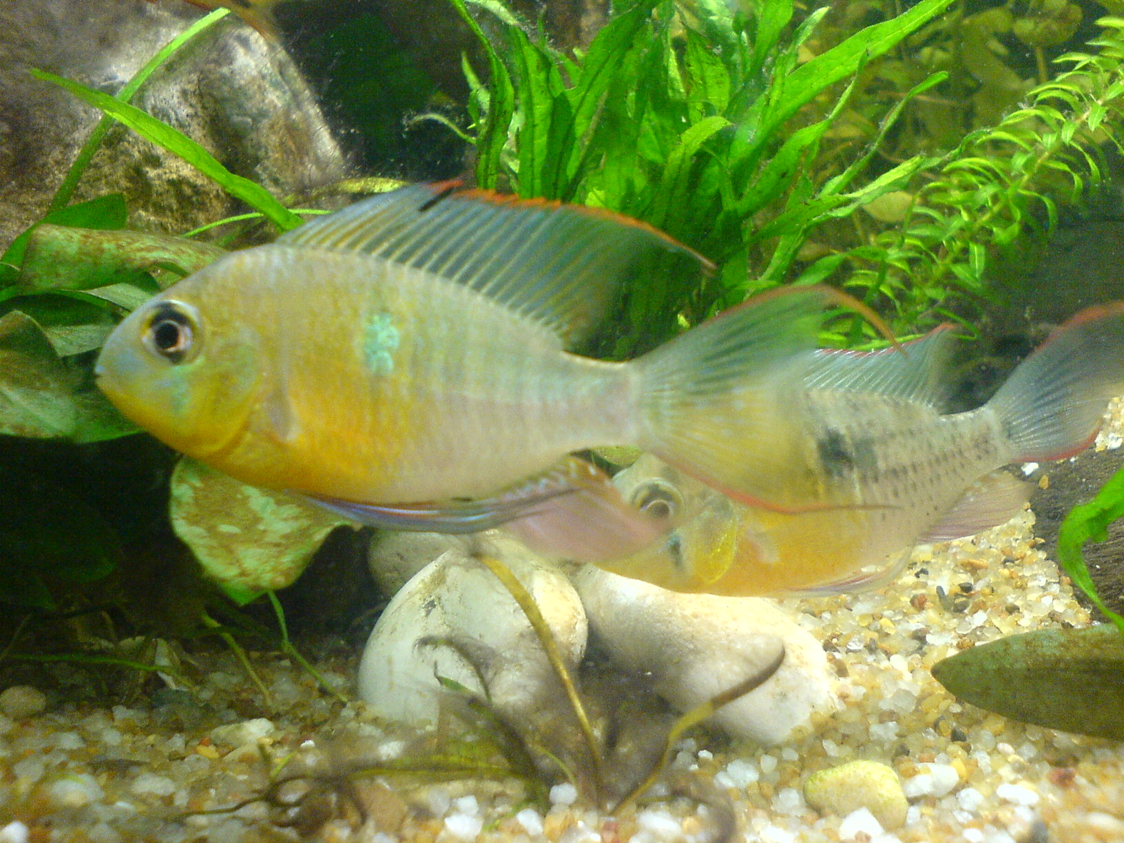 Author: Chris Walker Category:Cichlid images